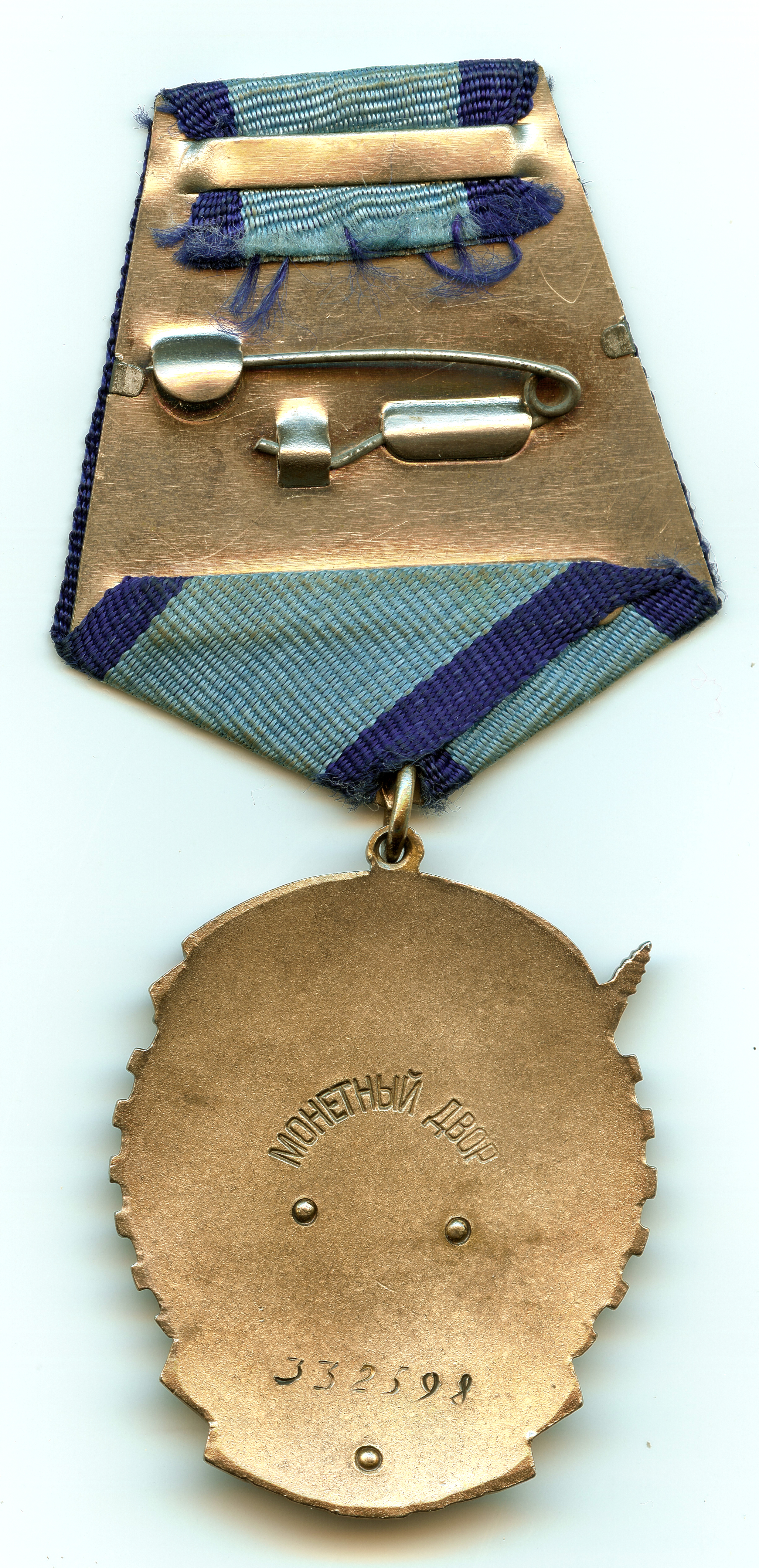 Order of the Red Banner of Labour (reverse)